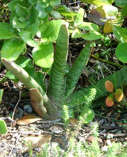 Gasteria acinacifolia in habitat